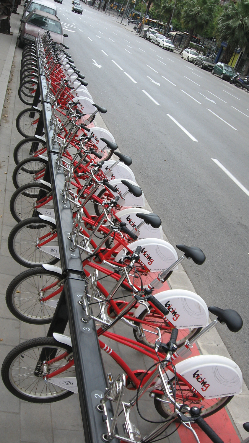 Bicing bicycles in Barcelona